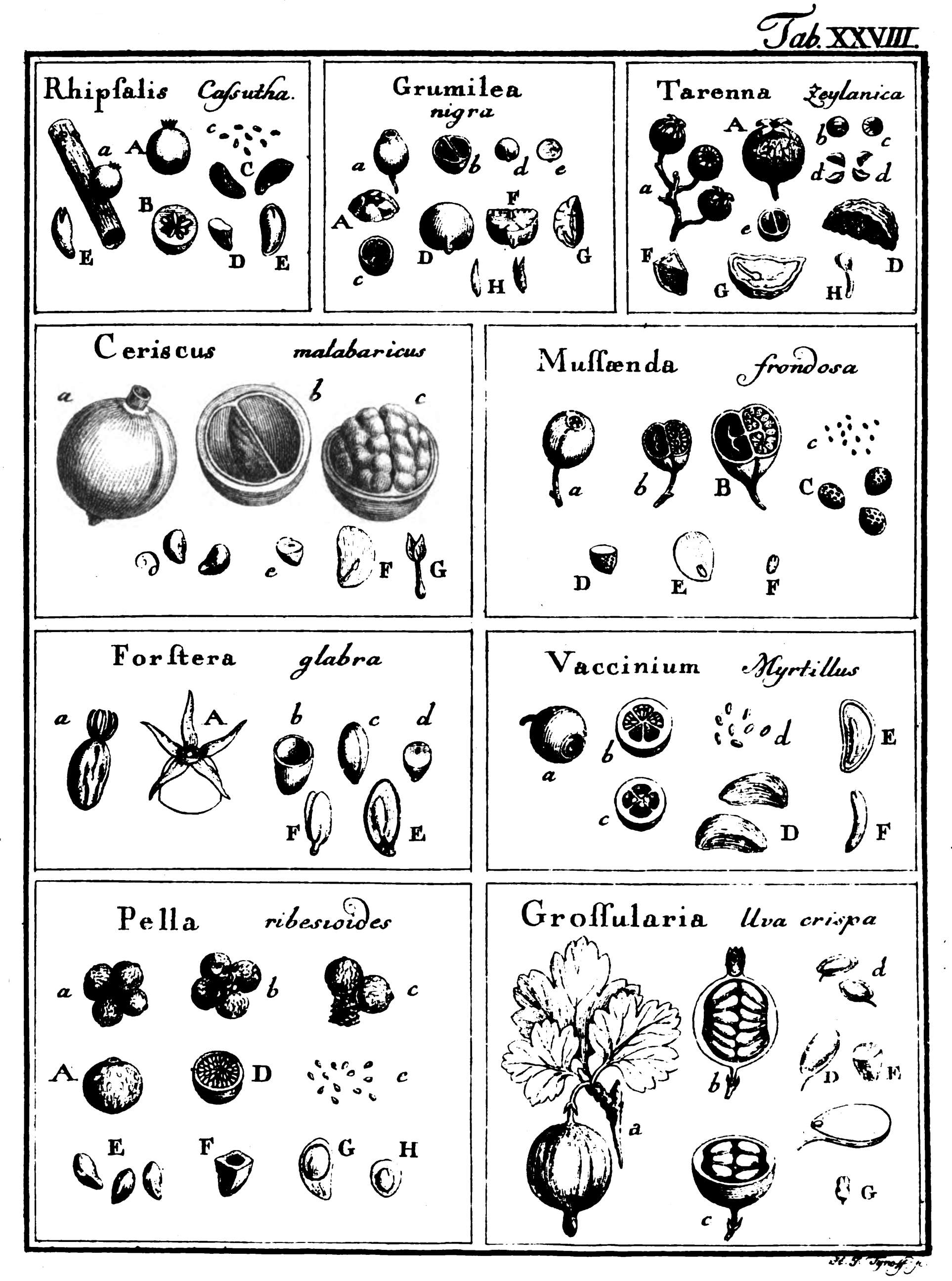 Table XXVIII from Joseph Gaertner (1788–1792), De Fructibus Et Seminibus Plantarum; cleaned up from digitized original